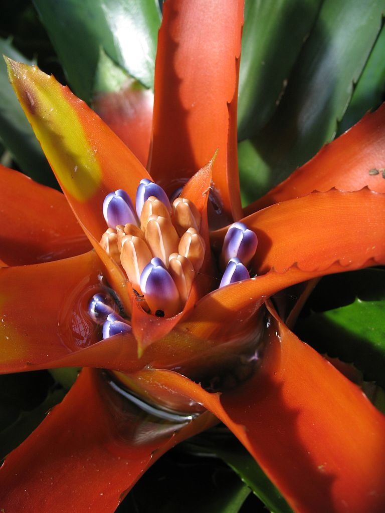 Nidularium fulgens, in cultivation at the Botanical Garden of Heidelberg, Germany.